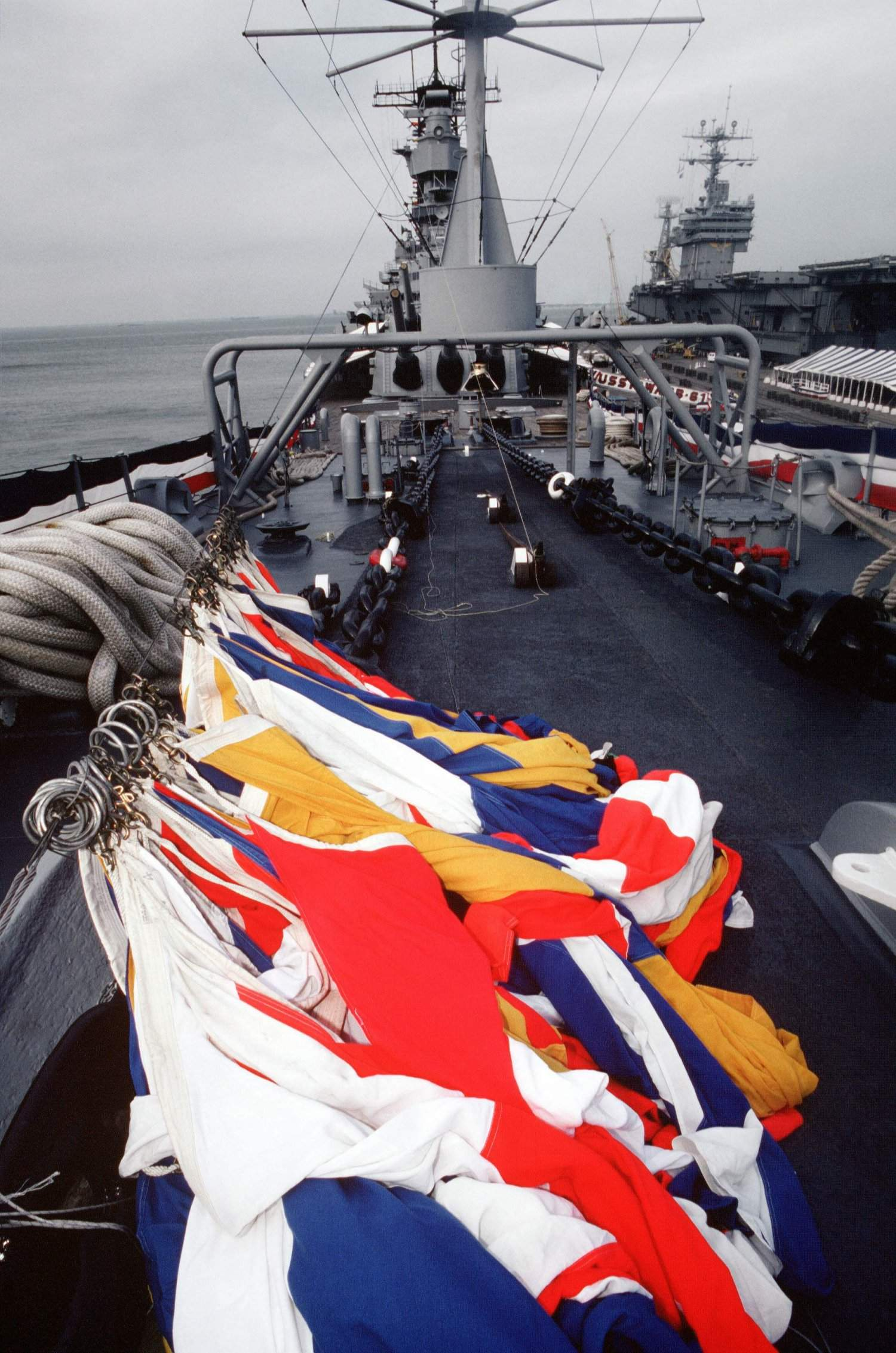 A flag hoist lies on the deck near the bow of the battleship Iowa (BB-61) following the ship's decommissioning ceremony at NAS Norfolk, VA., 26 Oct 1990. The nuclear-powered aircraft carrier Theodore Roosevelt (CVN-71) is at right. Official U.S. Navy Photograph # DN-ST-91-01564, by PH3 John Bivera, from the Department of Defense Still Media Collection, courtesy of dodmedia.osd.mil.